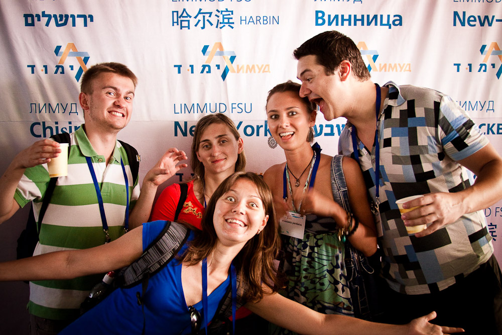 לימוד באר שבע